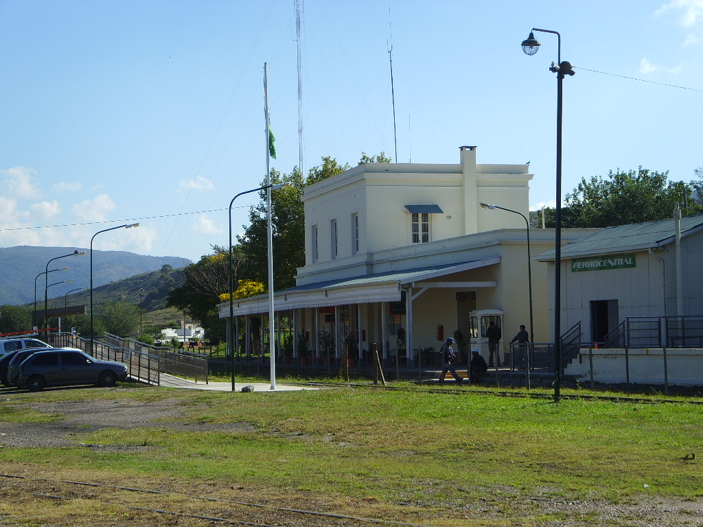 Train station of La Calera, Argentina